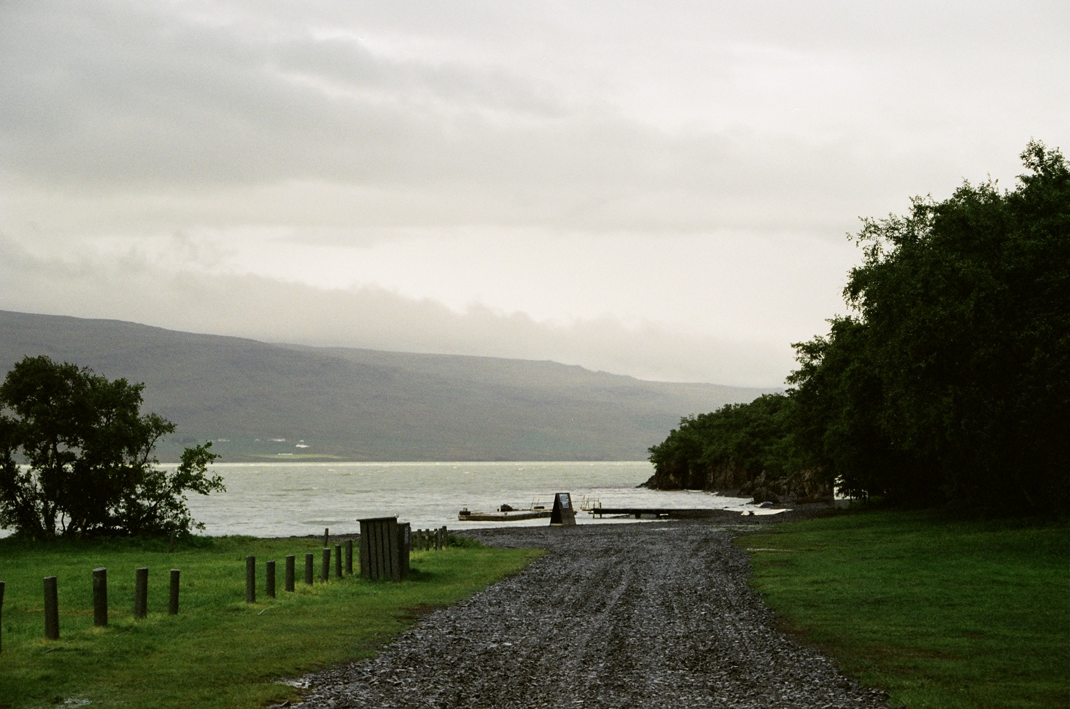 East-Iceland